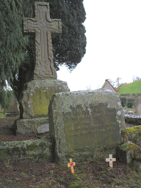 Alice Milligan gravestone. Alice Milligan (1865-1953) was an Irish nationalist, active in the Gaelic League, and a poet. She was a Protestant, born in Omagh; her father was the writer Seaton Milligan. She was a figure of the Irish literary revival. She is buried at Drumragh old Church of Ireland graveyard, about 2 miles from Omagh. The English part of the inscription reads, "Alice L. Milligan She loved no other place but Ireland. Born Omagh September 1865 Died Omagh April 1953" 202280